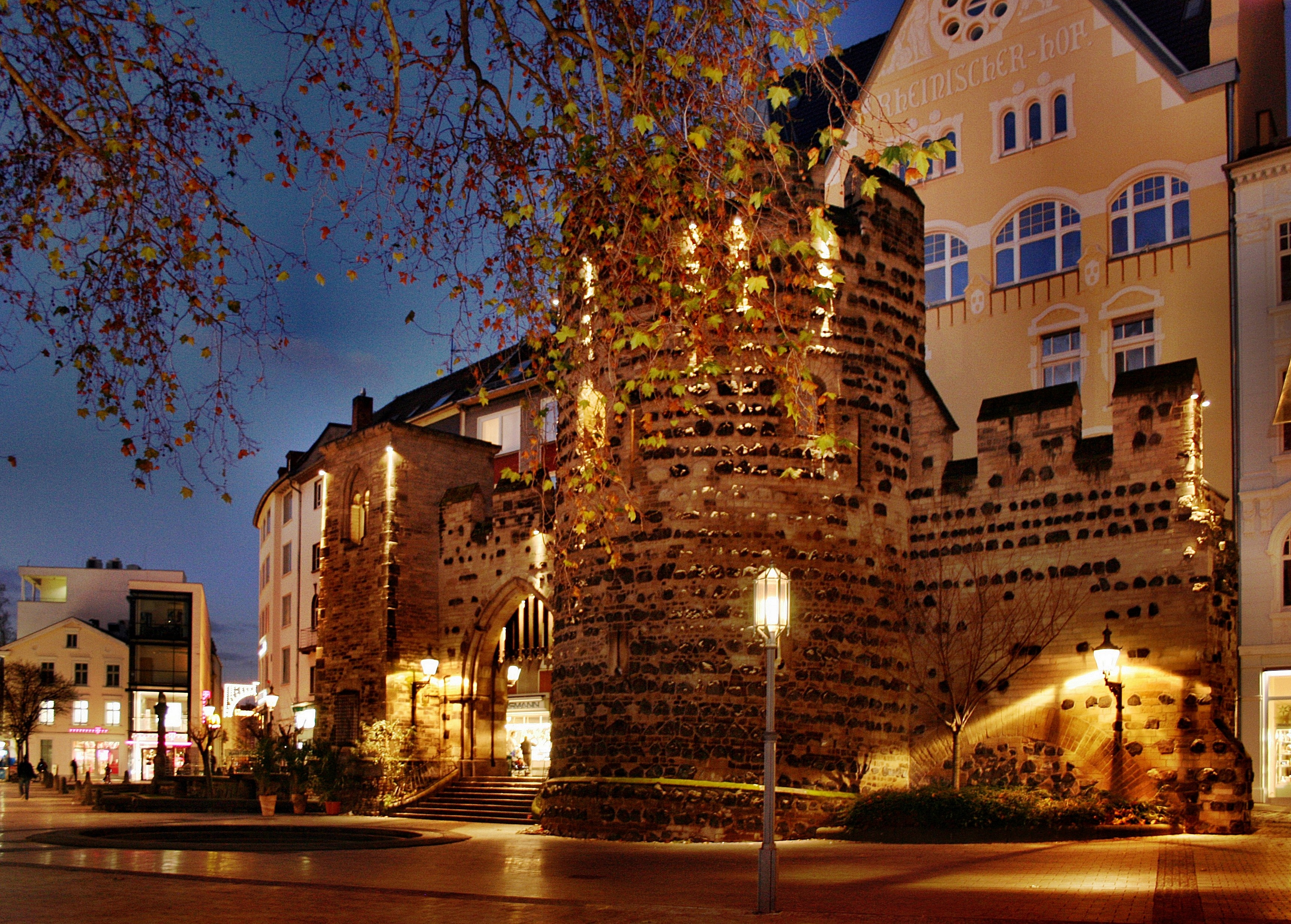 Germany, Bonn-City: Gate (Sterntor) from the 13th Century in the Vivatsgasse, northern Bottlerplatz. Since 1900, built on this site in remnants of the former city wall, until 1898 it was located in the Sternstrasse. This is a photograph of an architectural monument. 2016